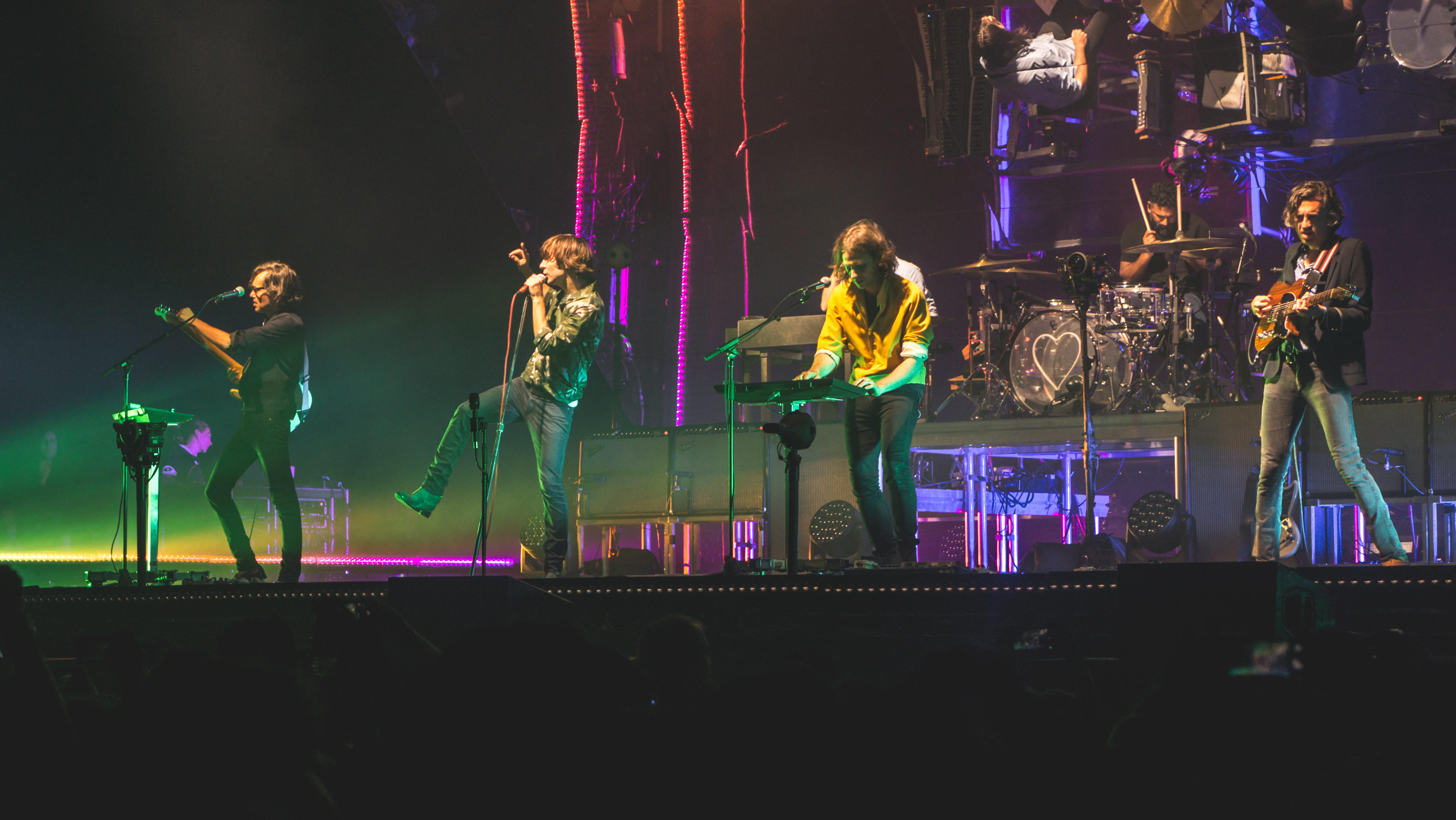 PhoenixAllyPal300917-8